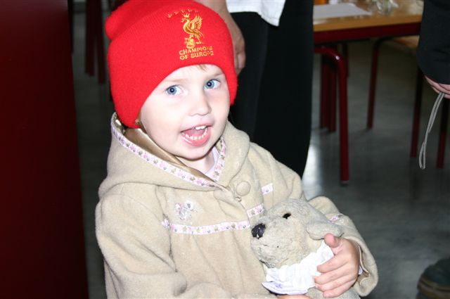 Child, Faroe Islands